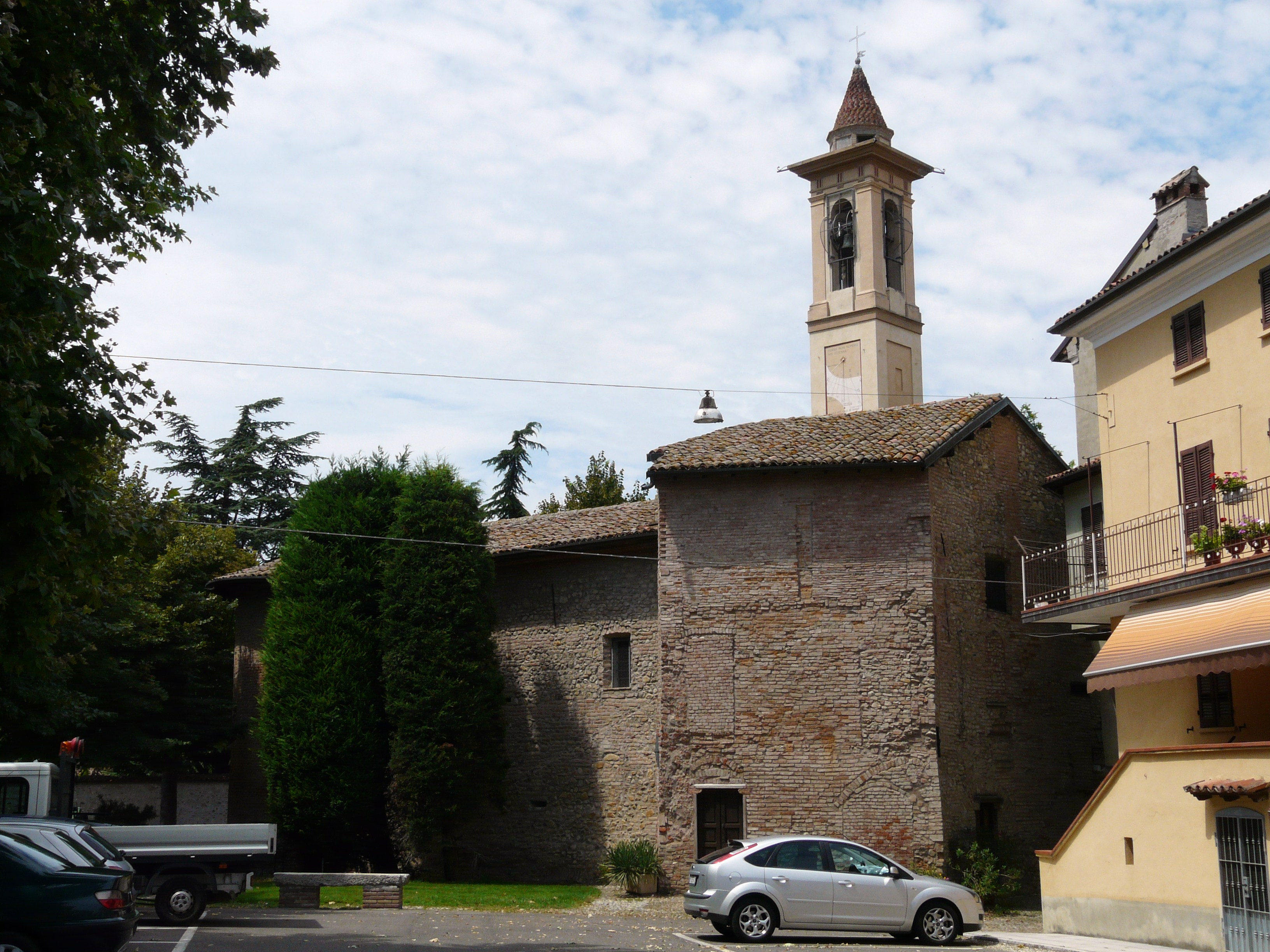 The bell tower "San Rocco", of Casalnoceto, Piemont, Italy